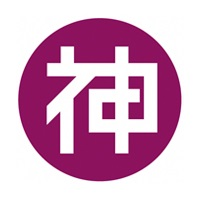 Godo Gifu chapter